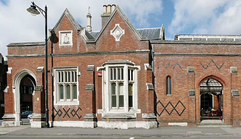 Windsor & Eton Riverside Station